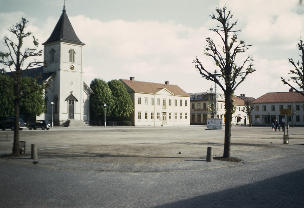 Kungsbacka church and the Town Hall at Stortorget (the Main Square) in Kungsbacka. Kungsbacka kyrka och rådhuset vid Stortorget i Kungsbacka. Parish (socken): Kungsbacka Province (landskap): Halland Municipality (kommun): Kungsbacka County (län): Halland Photograph by: Fredrik Bruno Date: May 1948 Format: Colour slide Persistent URL: Read more about the photo database (in english)